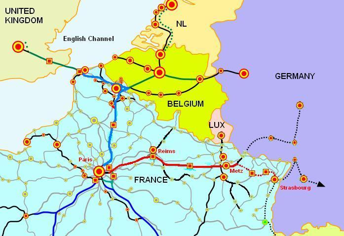 Mapa LGV Est (de la red de alta velocidad de los ferrocarriles franceses) LGV Est Map (french high speed railway network) Own work